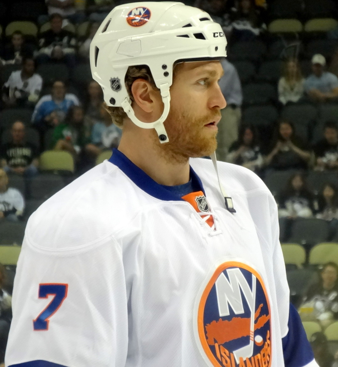 New York Islanders defenseman during round one, game five of the 2013 Stanley Cup playoffs against the Pittsburgh Penguins, May 9, 2013 at Consol Energy Center.